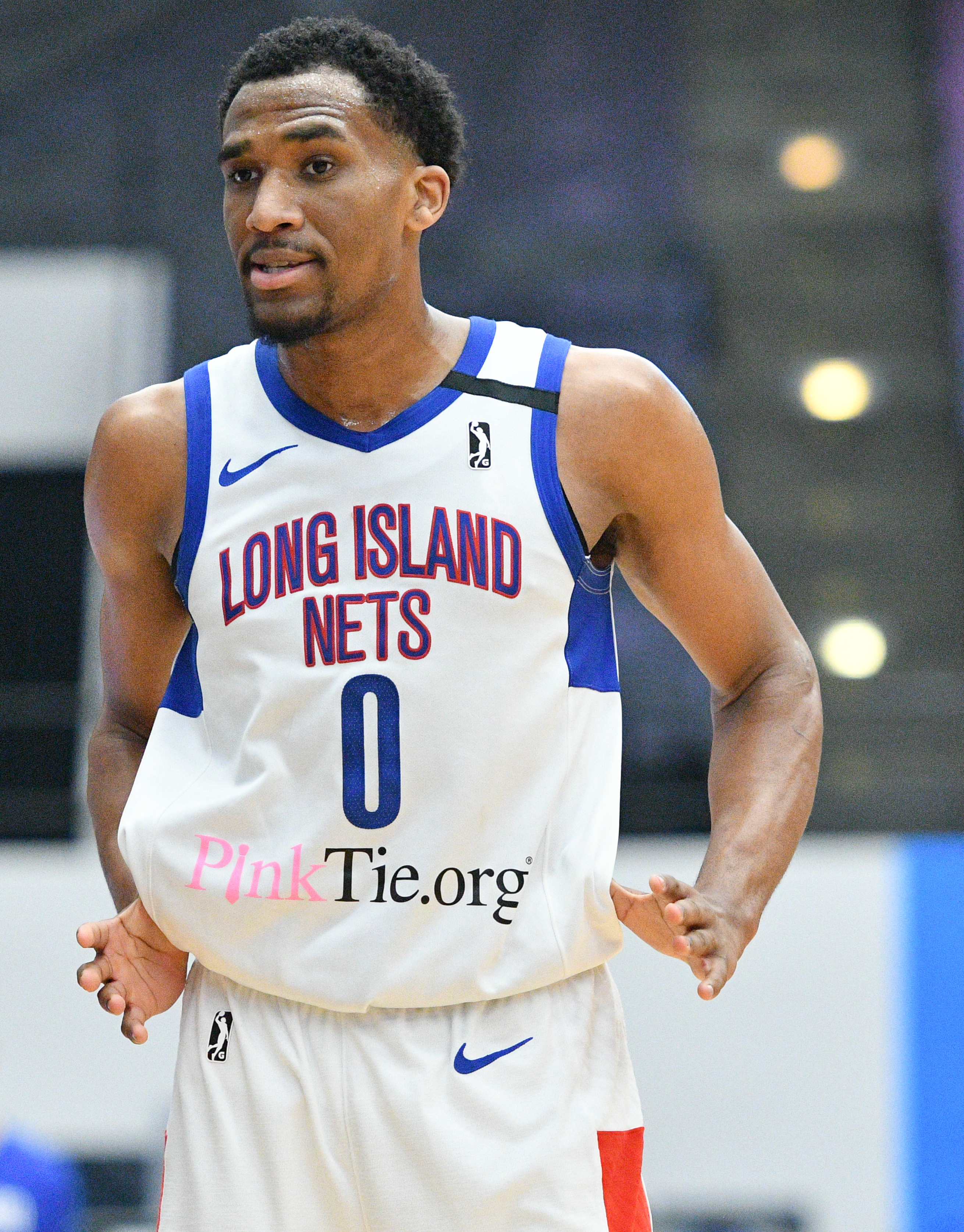 Jeremiah Martin (0). Lakeland Magic vs Long Island Nets. RP Funding Center. Lakeland, Fla. Feb. 21, 2020. (Photo by Tom Hagerty.)